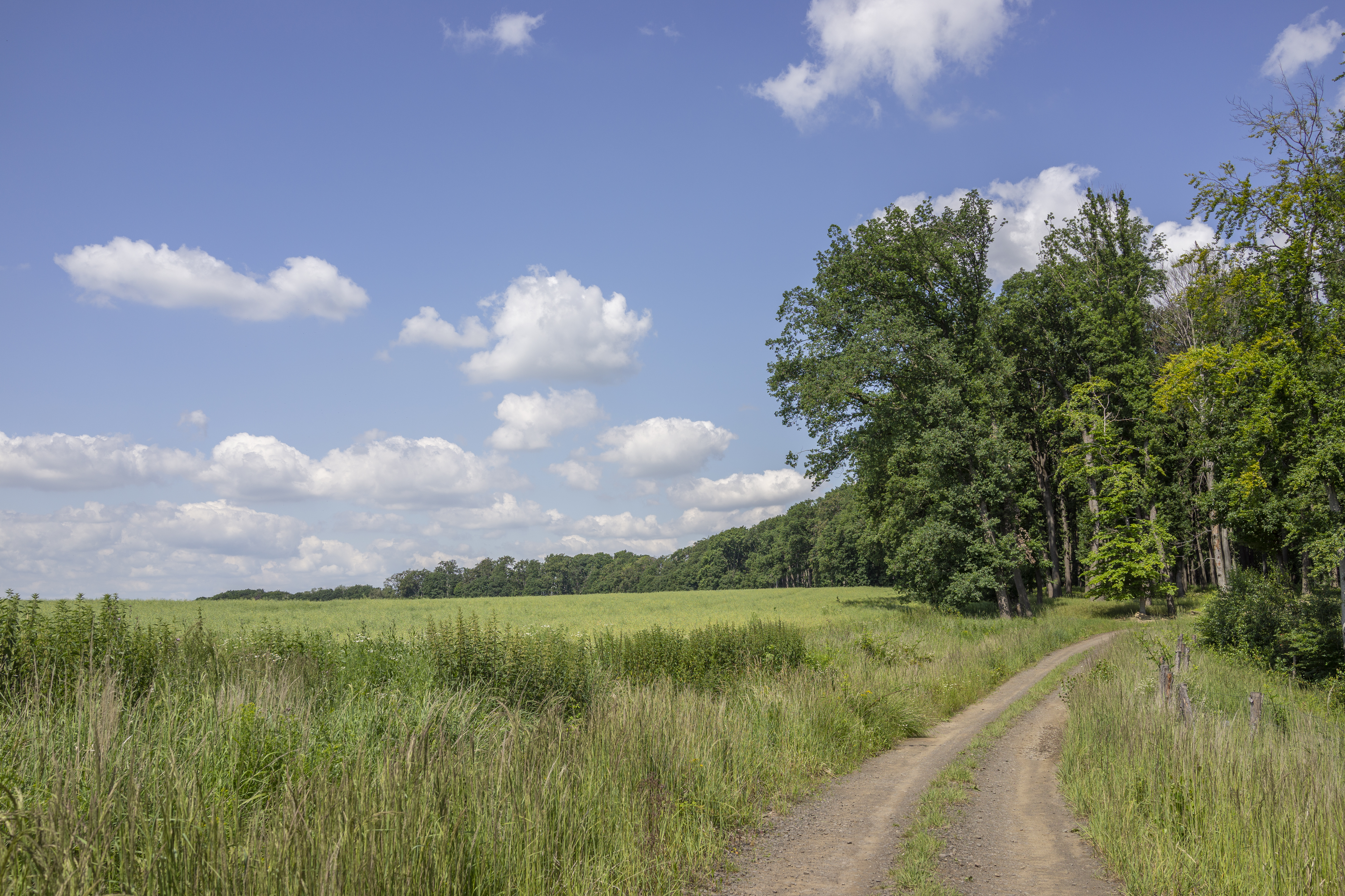 Top of the Hladomer hill (377 m) in the Czech Republic, Mlada Boleslav District